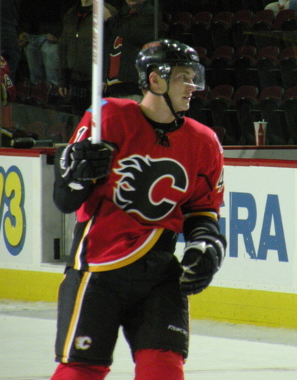 Dustin Boyd being saluted by the fans after being named first star of the Calgary Flames exhibition game vs. the Florida Panthers, September 23, 2008.